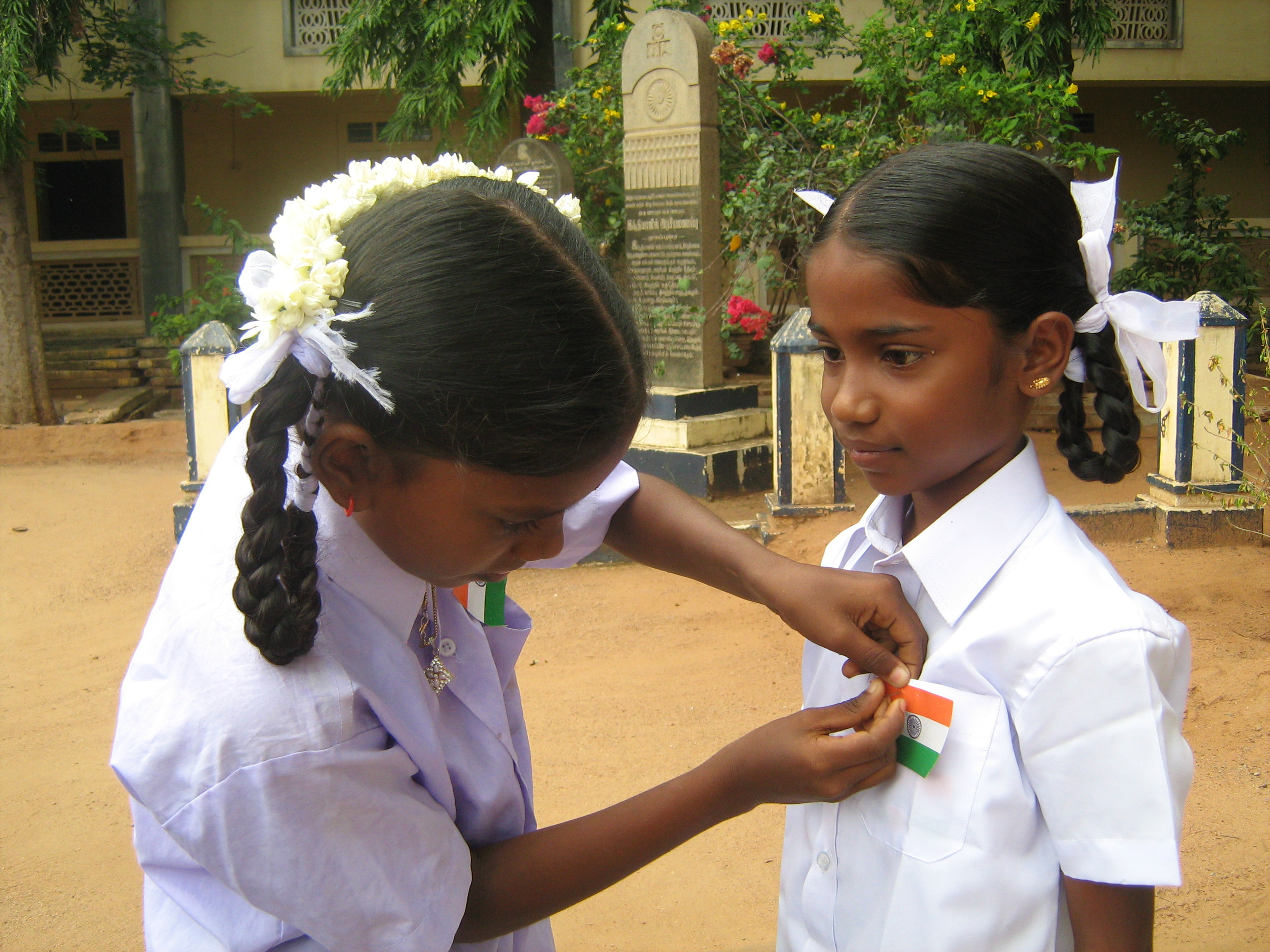 attached flag card